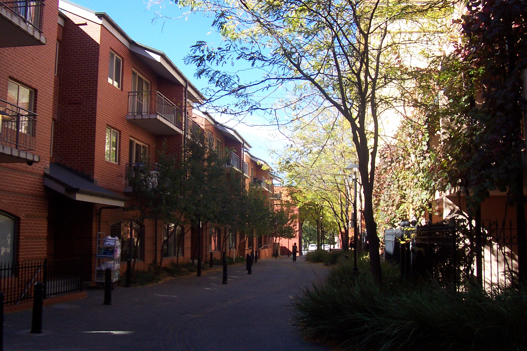 garden east/ East End Astoria original artwork Maelgwn 14:00, 14 January 2006 (UTC)